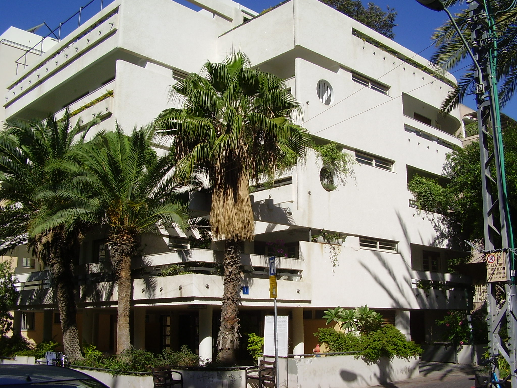 Rabinsky House — Modernist building in Tel Aviv.